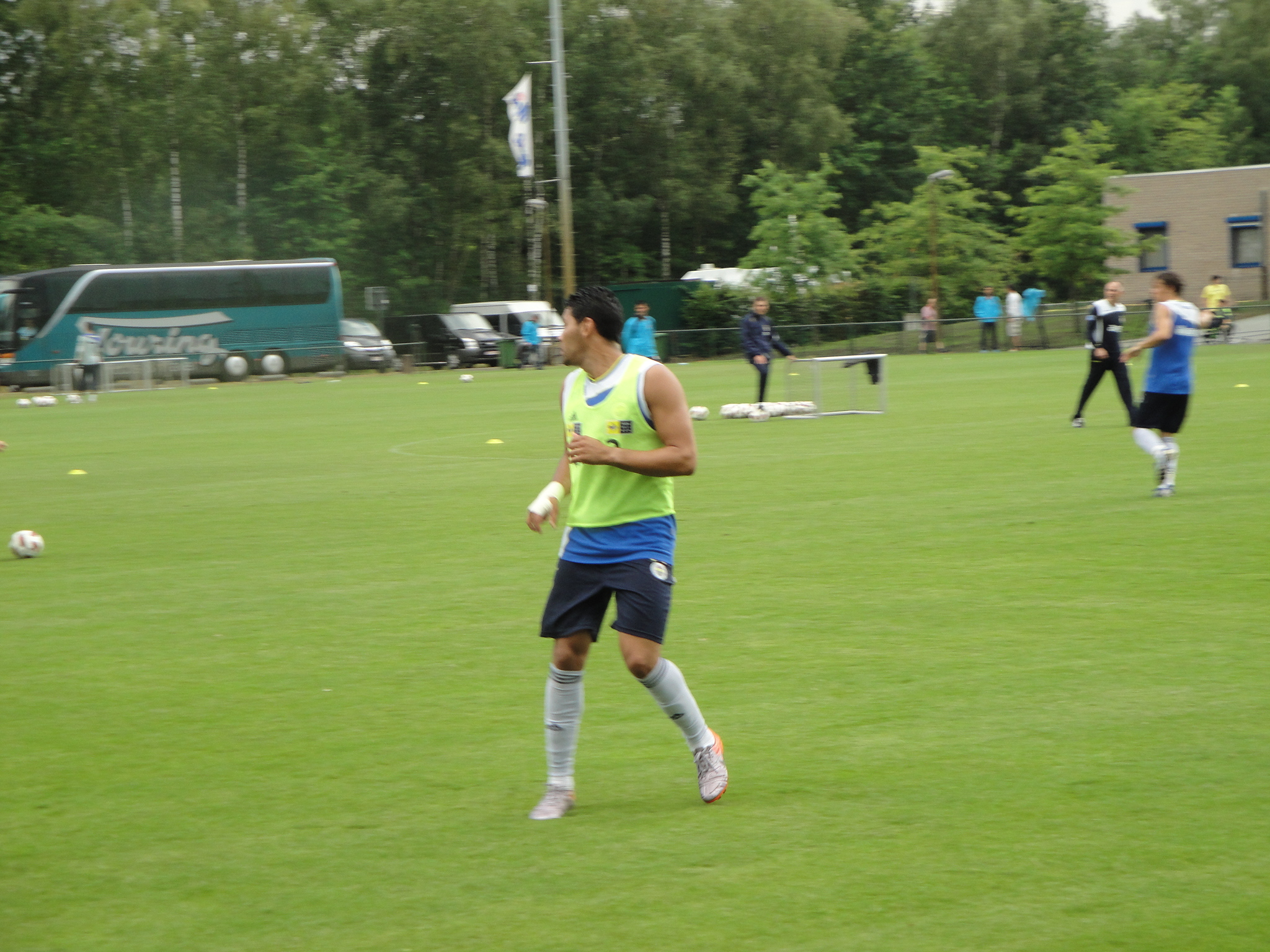 Picture of André Dos Santos while training